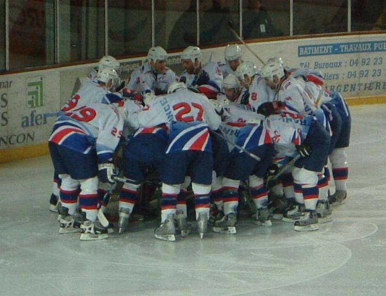 Team France, ice hockey. Euro Ice Hockey challenge, 2003, Briançon, France.